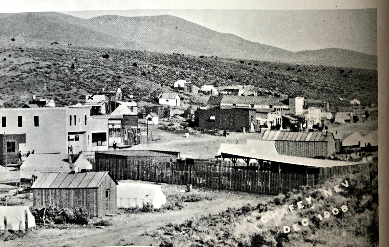 Chafey, Nevada. 1908. Prior site of Dun Glen, Nevada.